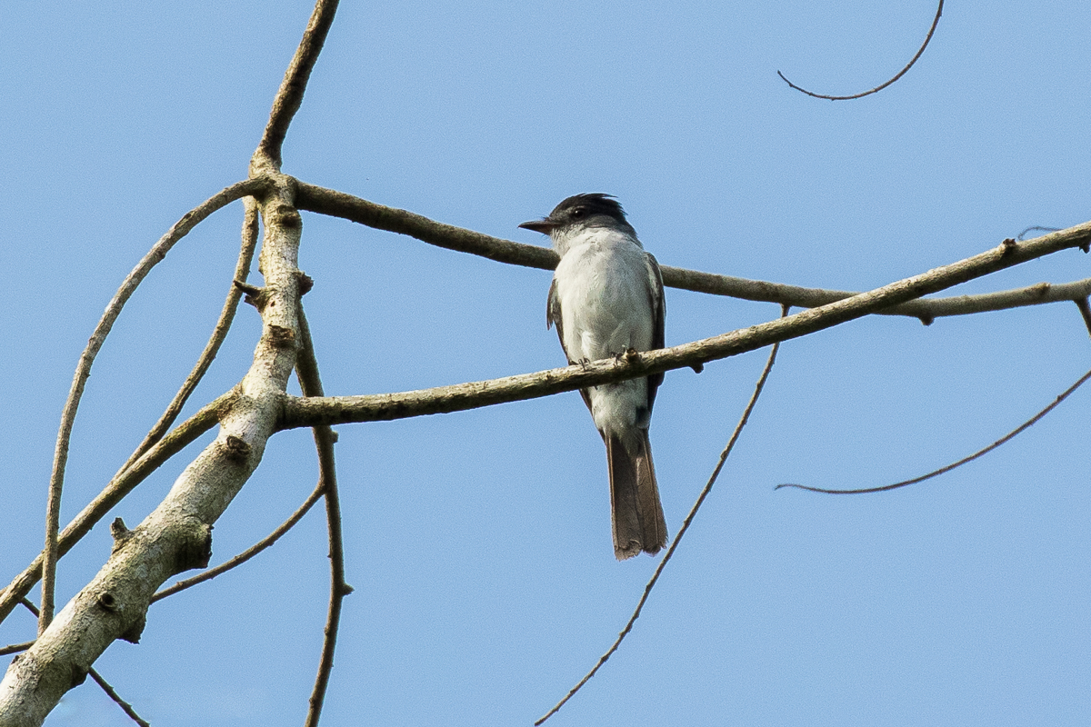 Choco Sirystes - Darien - Panama CD5A8311